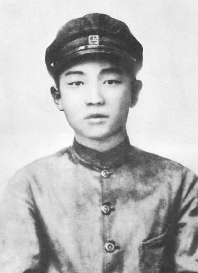 Depicted person: Kim Il-sung in Jilin. Original caption: “In the days in Jilin (1927)”